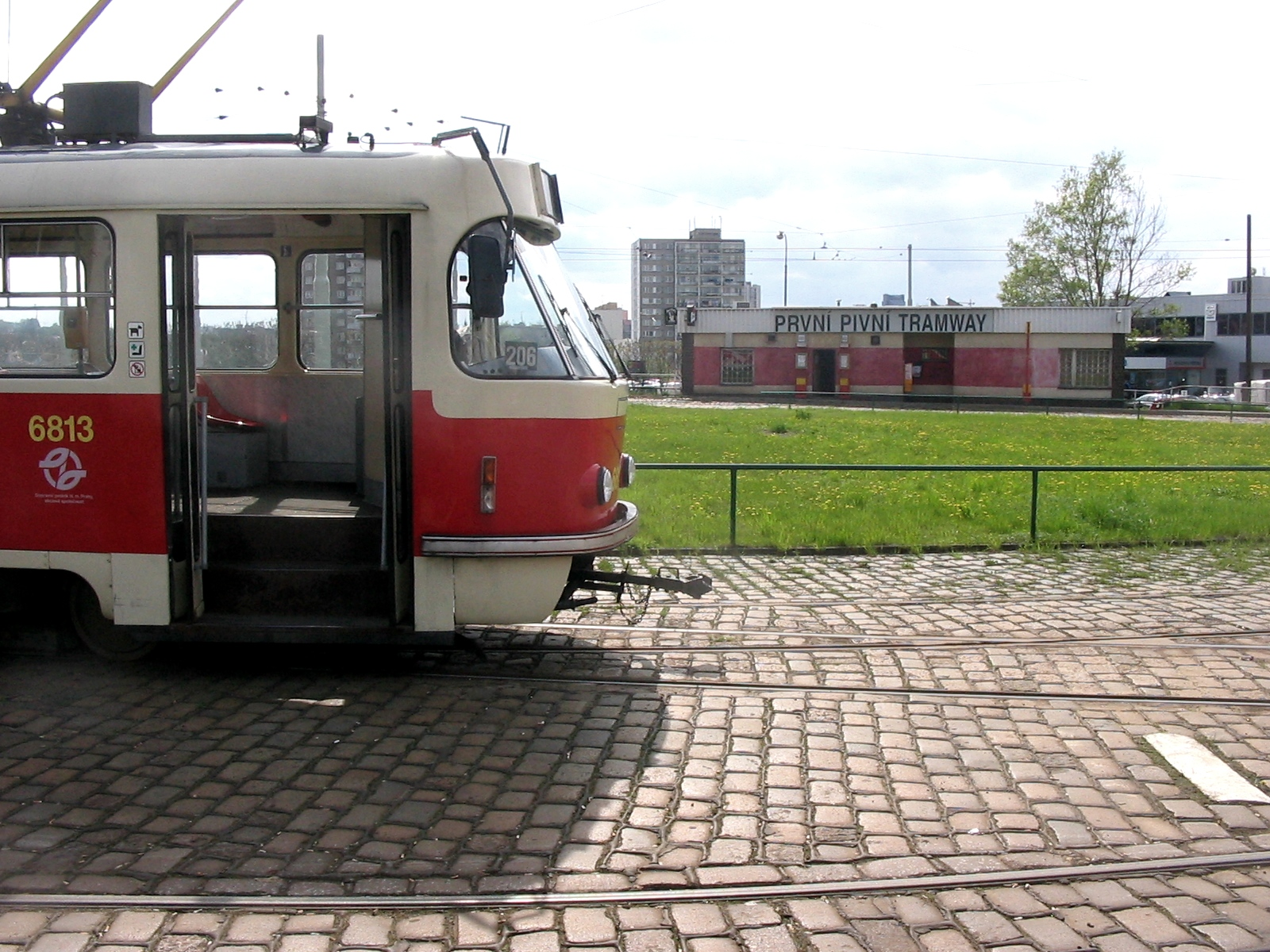 Prvni Pivni Tramway. A pub in Prague at a tram baloon loop Spořilov Author: Mohylek 22:46, 28 July 2006 (UTC)